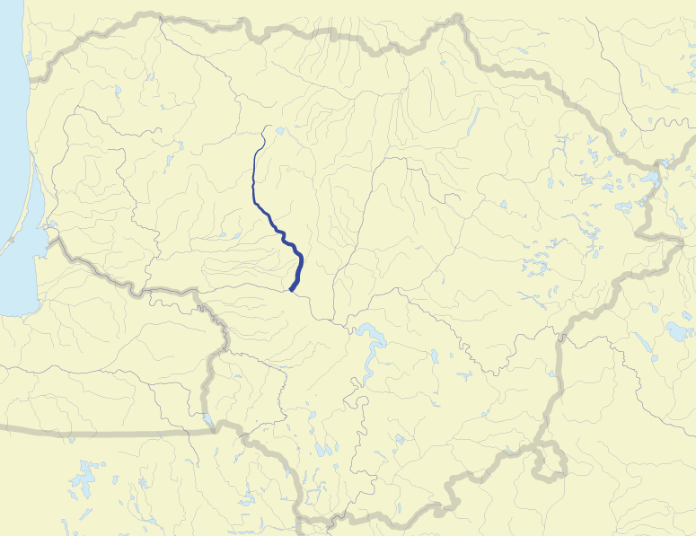 RiverDubysa